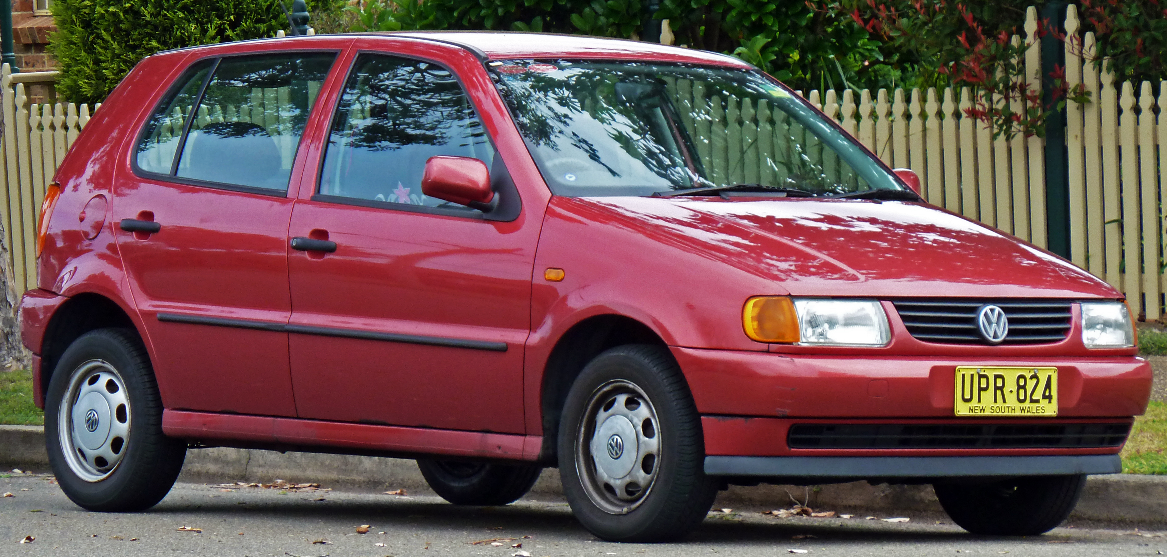 1997 Volkswagen Polo (6N) 5-door hatchback. Photographed in Sans Souci, New South Wales, Australia.